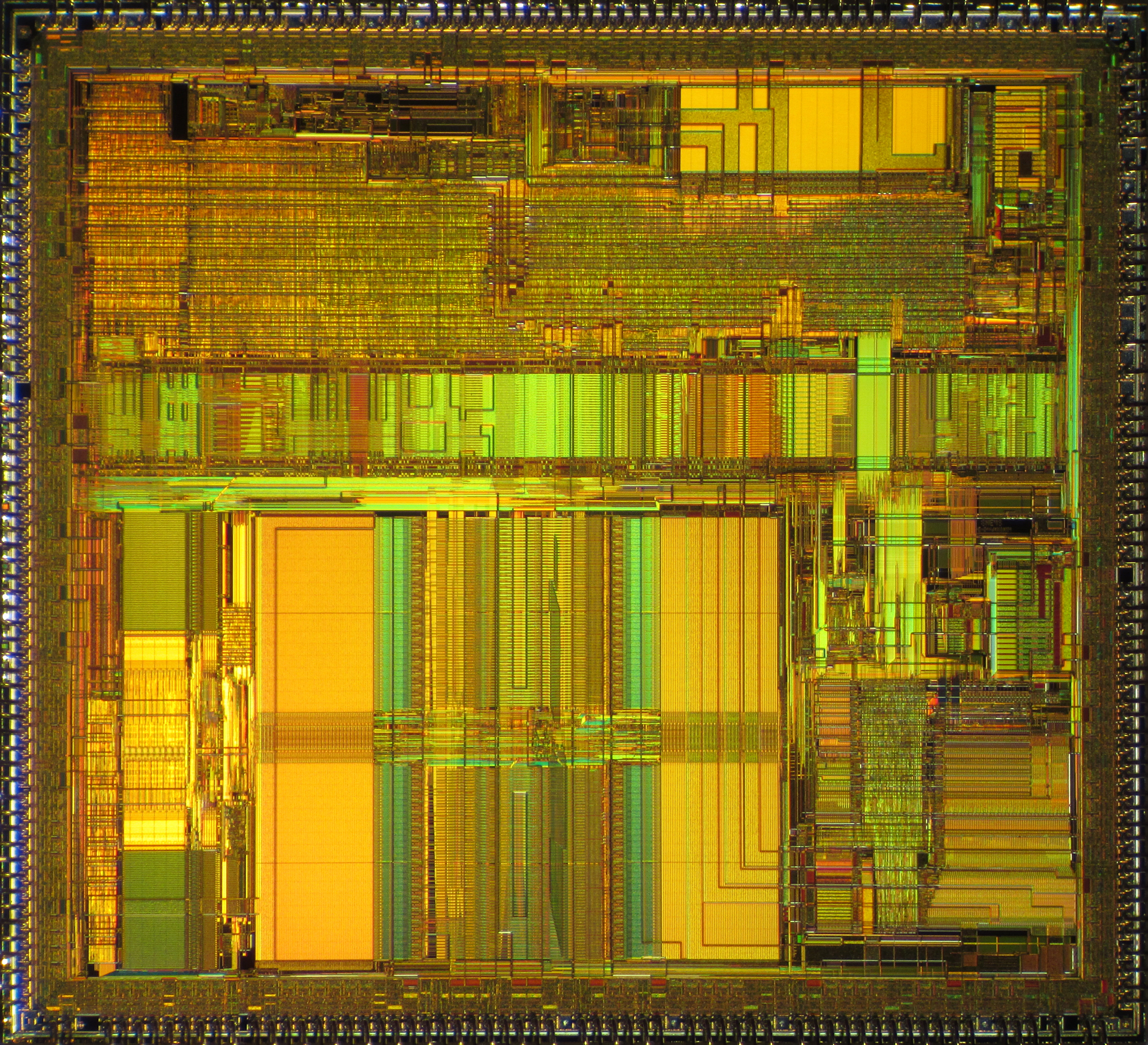 Die shot of Intel 80486 DX4-100 microprocessor (SK096 with write-back cache).